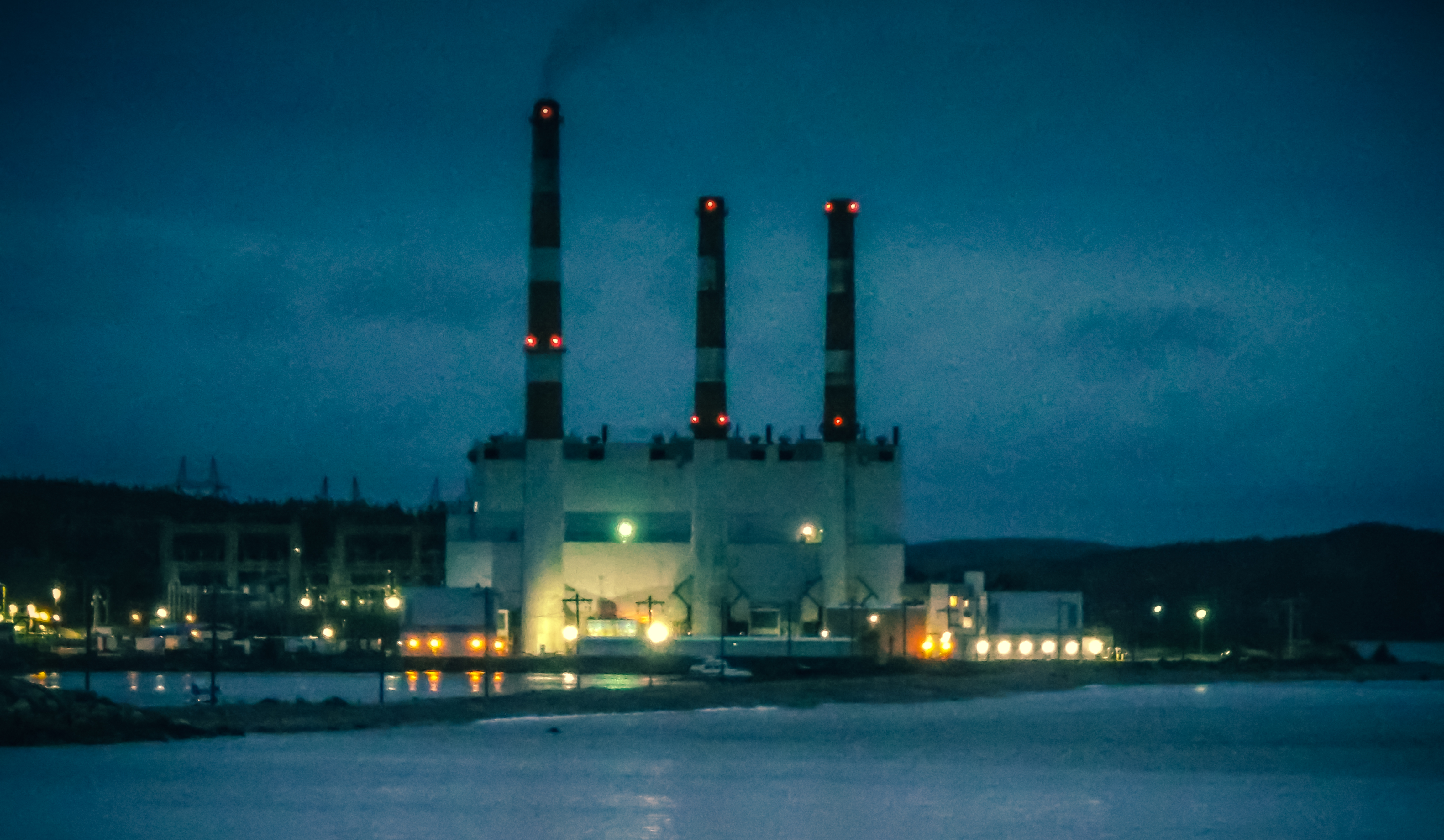 Holyrood Thermal Generating Station